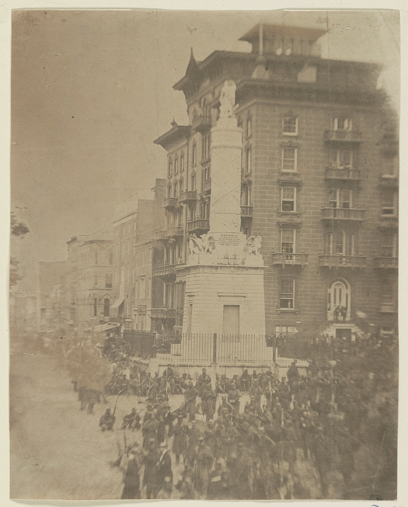 6th Massachusetts camped in Monument Square, Baltimore, July 1, 1861